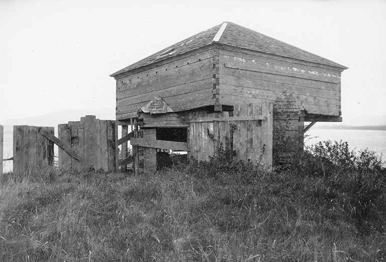 Notes in inventory: New Whatcom, Wash., 3 miles west. Remains of Fort Bellingham. At head of Bellingham Bay looking southwest .This fort, built in 1856 and abandoned in 1860, was on a bluff overlooking Bellingham Bay, 3-1/2 miles west of the mouth of Whatcom Creek in southwest Whatcom County. It was named for Bellingham Bay and was once commanded by George Pickett who as a Confederate General led the famous Pickett's charge at the Battle of Gettysburg. New Whatcom was an early town on Bellingham Bay formed by the merger of Whatcom and Sehome in 1891, assisted by the coming of a large number of settlers from Kansas. This town later combined with Fairhaven to form the city of Bellingham. Whatcom is an Indian word meaning "noisy rumbling water" referring to Whatcom Falls. PH Coll 291.143 Subjects (LCTGM): Forts & fortifications--Washington (State); Ruins--Washington (State) Subjects (LCSH): Fort Bellingham (Wash.); Bellingham Bay (Wash.)